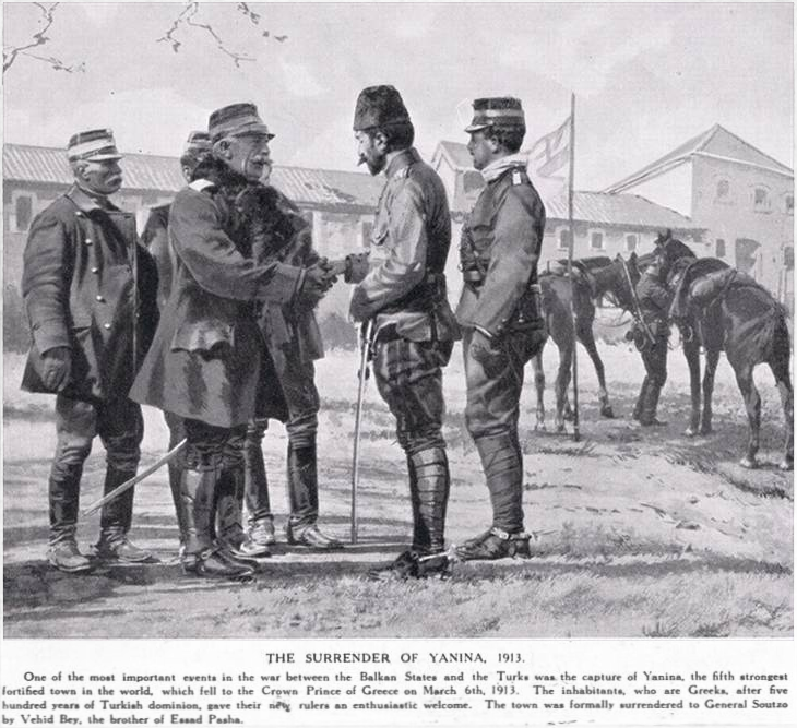 Illustration of the surrender of Yanina to the Greek Army after the Battle of Bizani. Pictured are Greek Cavalry General Alexandros Soutsos (center left) shaking hands with the Ottoman representative, Major Vehib Bey.